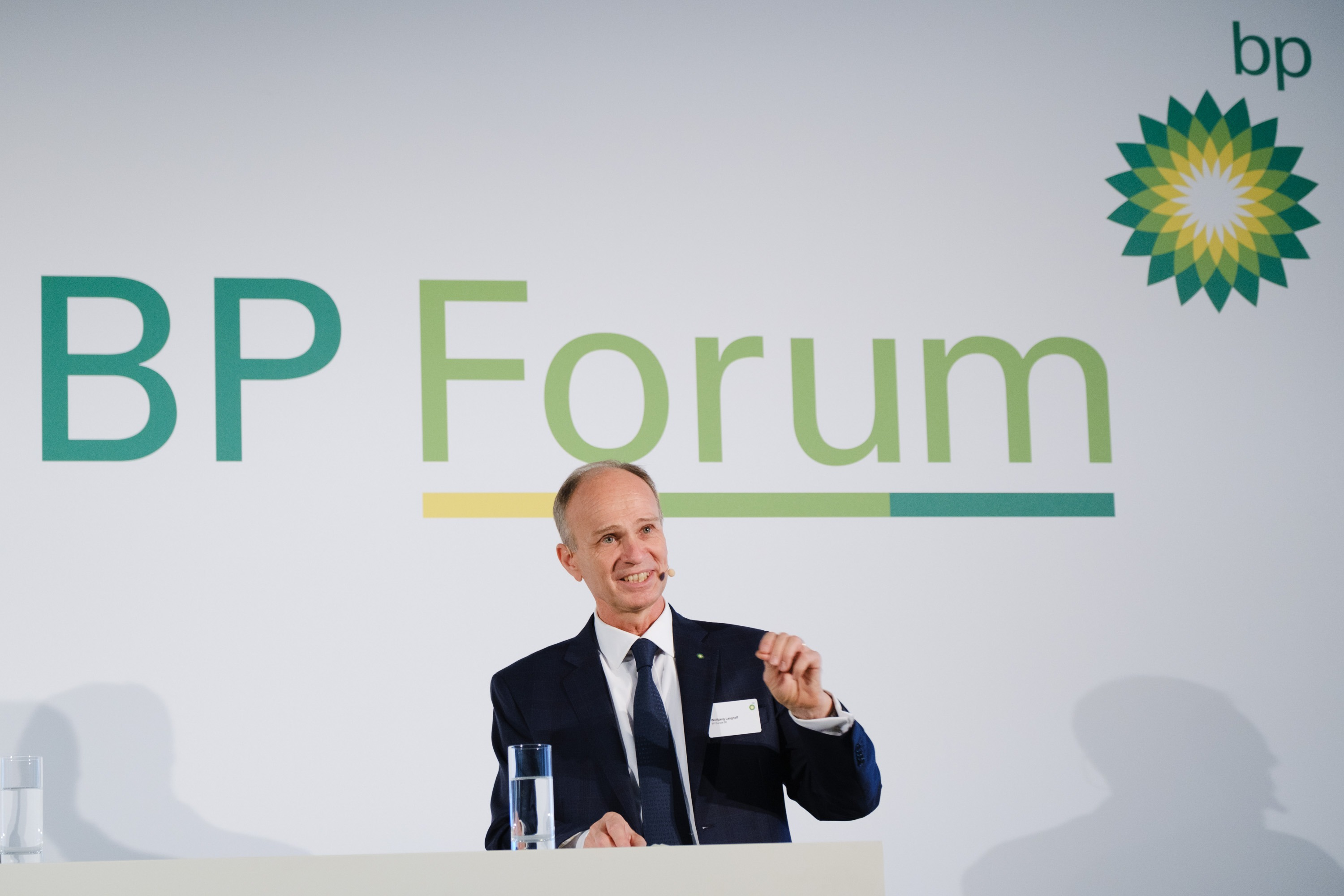 Wolfgang Langhoff, Chief Executive Officer of BP Europe